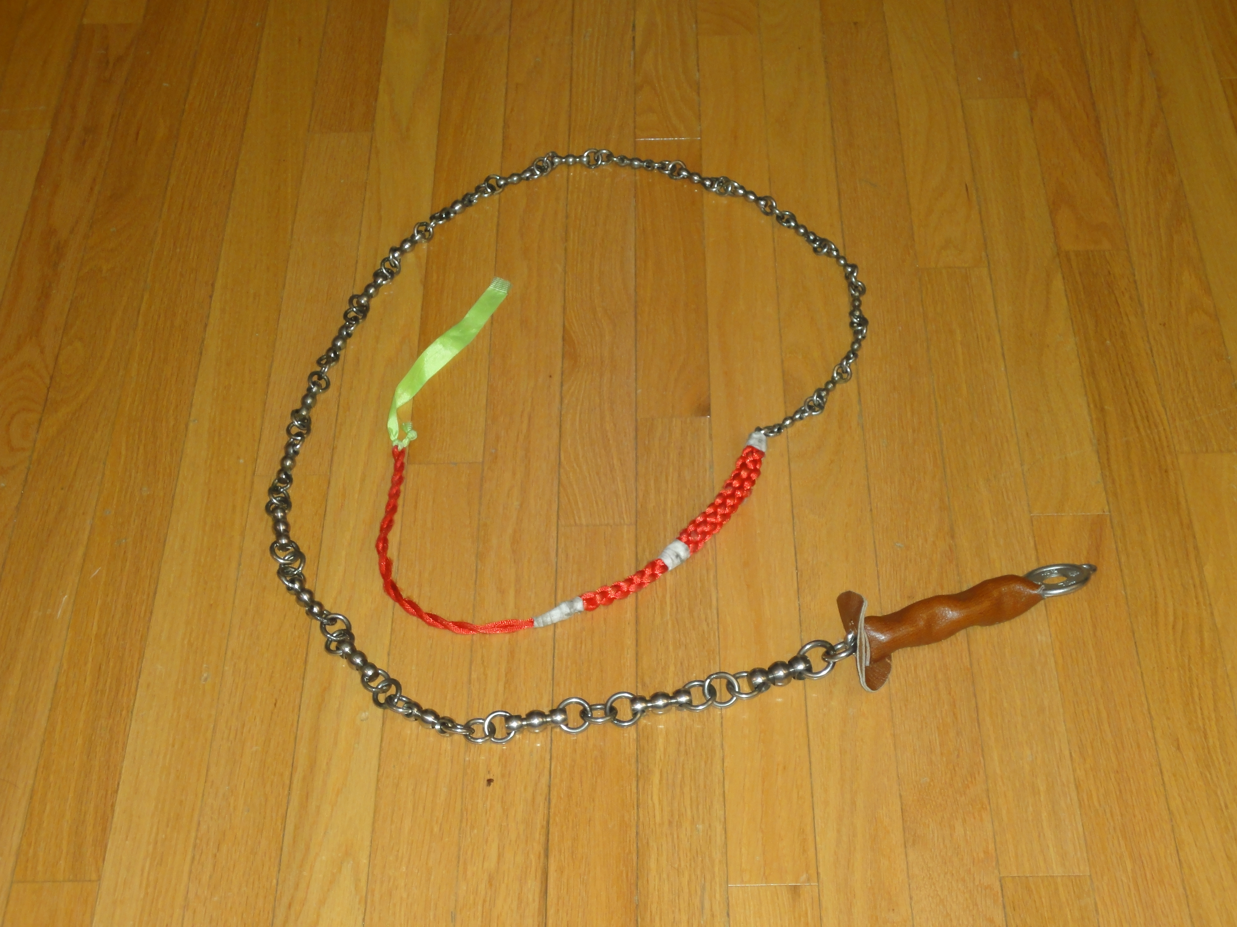 Qilin Whip